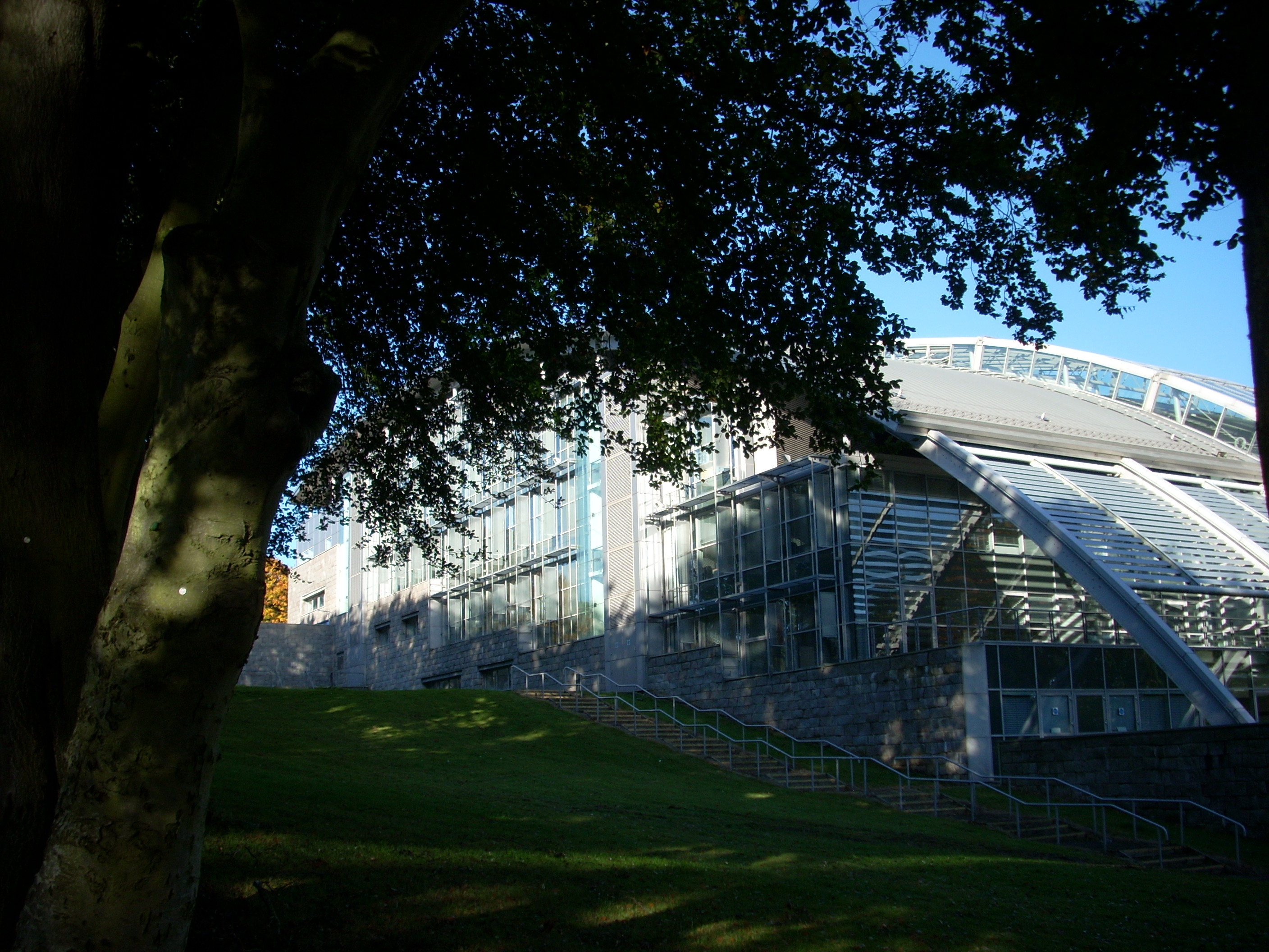 View from side of the Faculty of Health and Social Care building, at the Robert Gordon University's campus at Garthdee, Aberdeen, UK. Side shown is closer to the river and includes terrace built into the building.